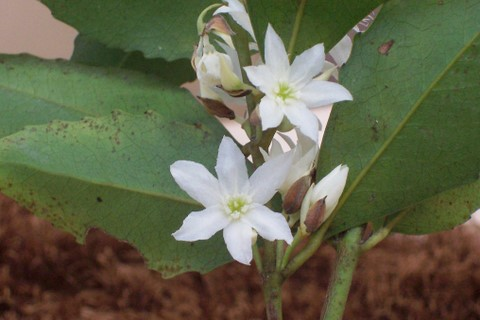 Doryphora sassafras flowers, St Ives, Australia